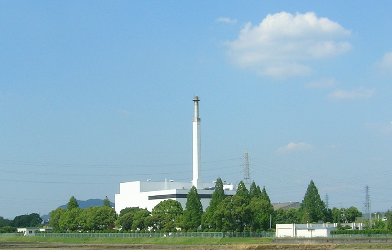 Konan-Niwa Environmental management Association, Incinerator plant in Ōguchi town, Niwa District, Aichi Prefecture, Japan